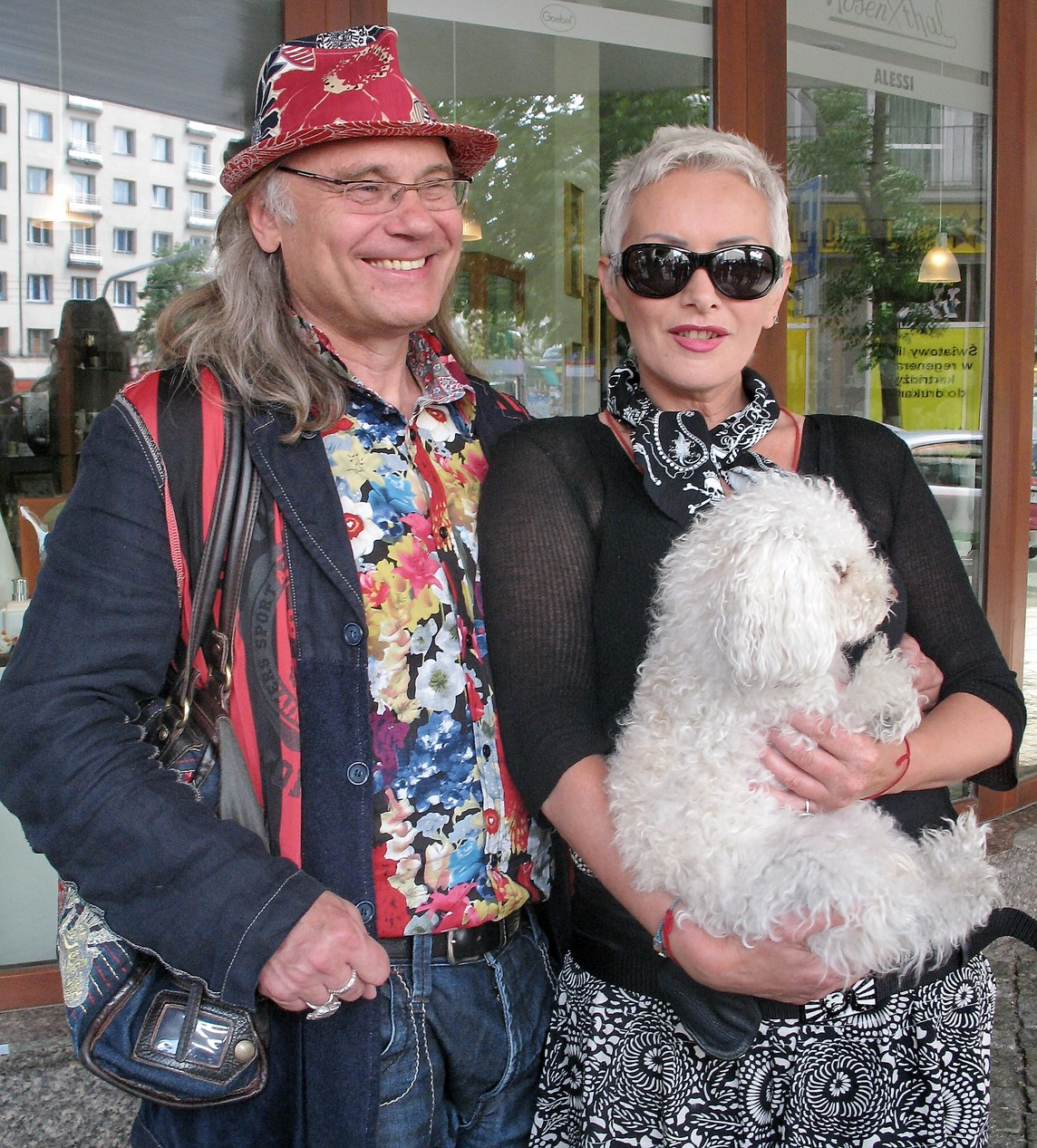 K. Sipowicz & K. Jackowska (Warsaw 2009).